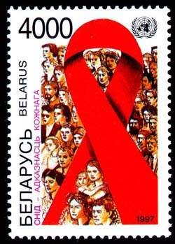 Stamp of Belarus